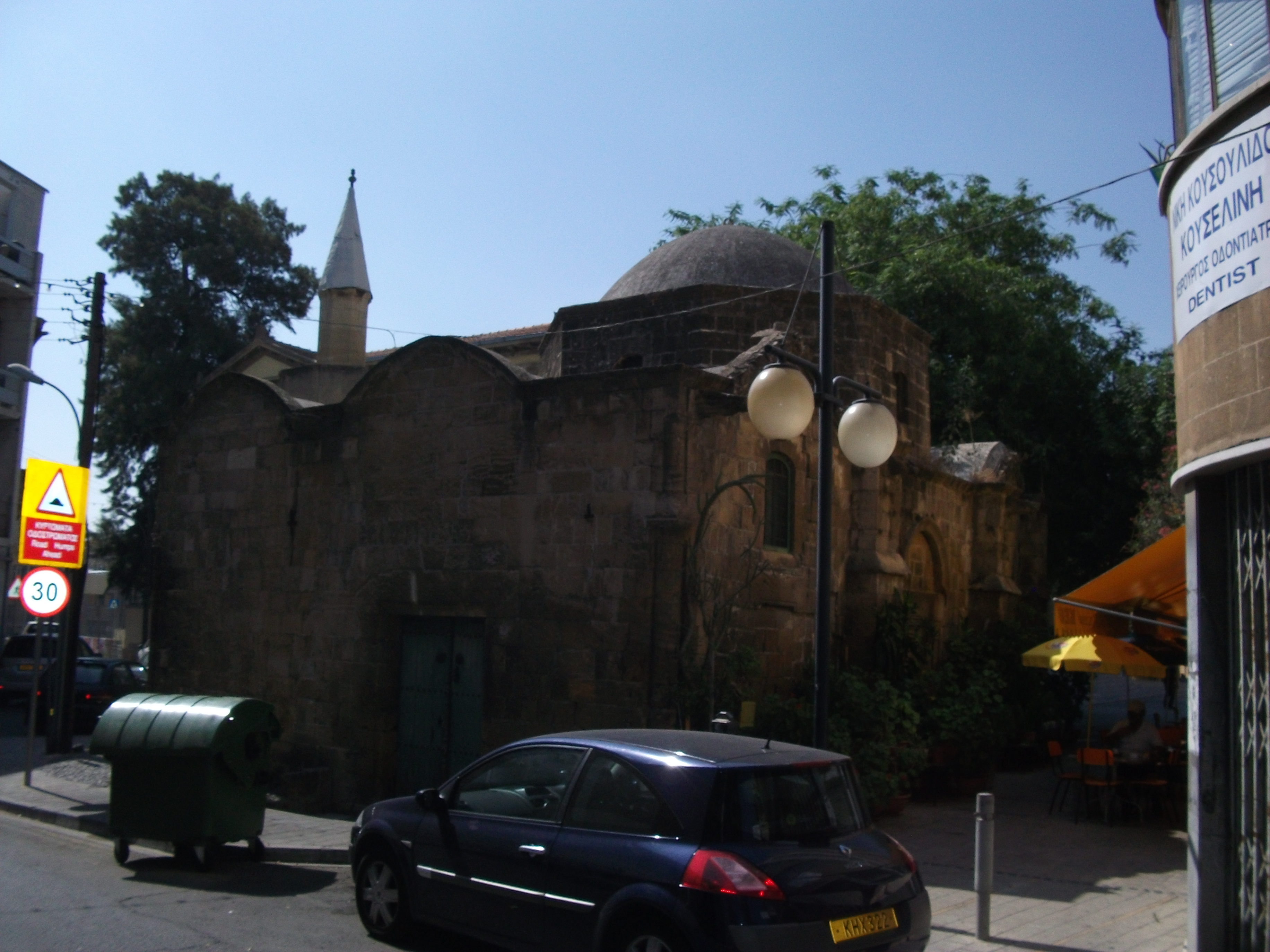 A deconsecrated mosque that is occasionally used for functions.